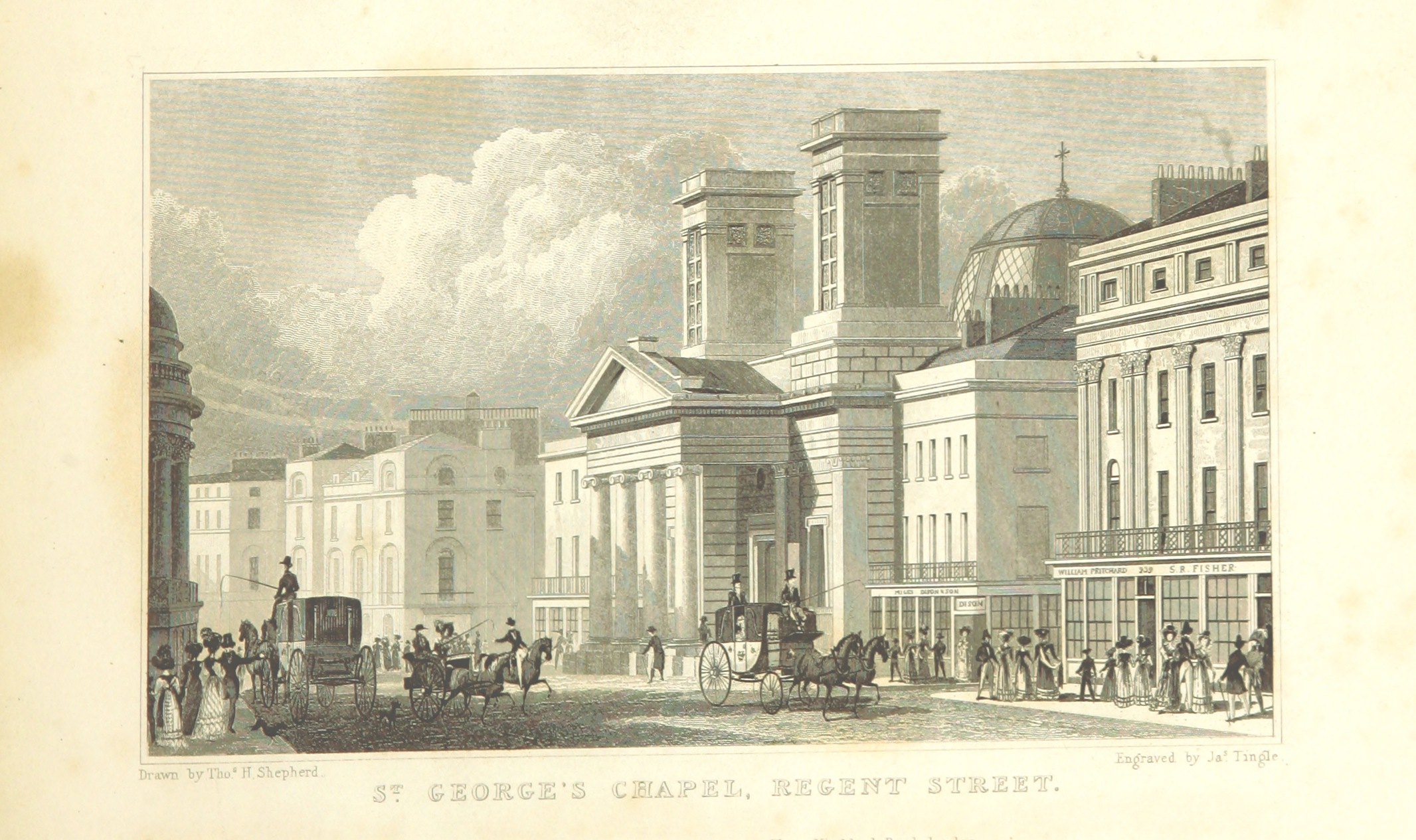 Hanover Chapel, on the West side of Regent Street between Hanover Street and Princes Street. Designed by Sir Charles Robert Cockerell. Opened in 1823, dedicated to St Anselm. Re-dedicated to St Philip in 1861. It closed in 1893. Regent House, which replaced it, now contains the Apple Store.